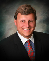 Portrait of Ara J. Najarian, current Mayor of Glendale, California.